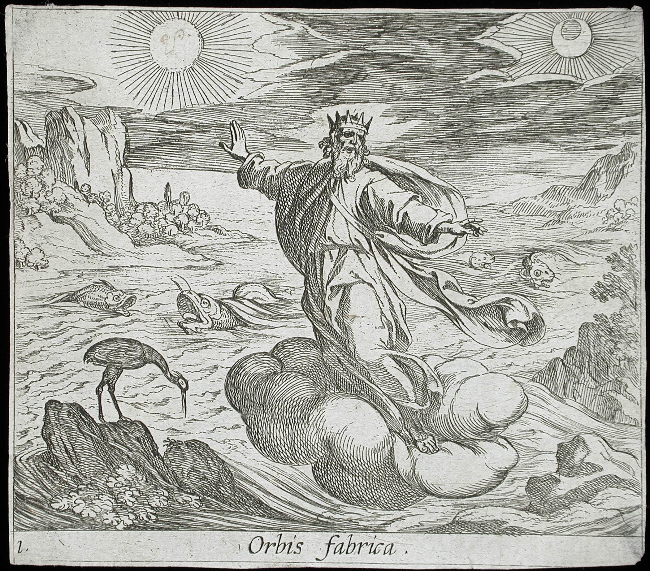 Italy, published 1606 Alternate Title: Orbis Fabrica Series: The Metamorphoses of Ovid, pl. 1 Edition: Second edition Prints; etchings Etching Los Angeles County Fund (65.37.85) Prints and Drawings